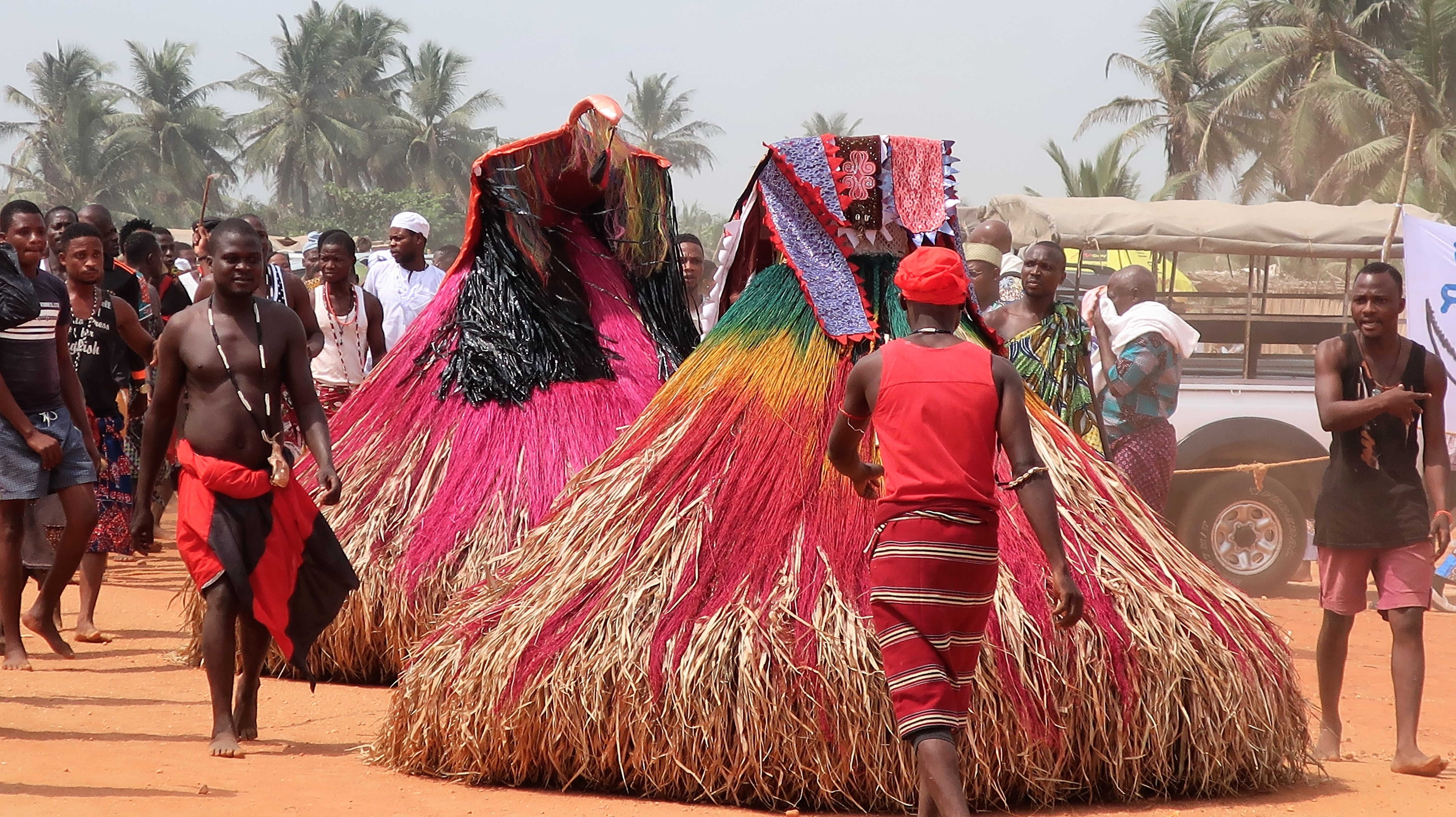 Two Zangbetos running in national Vodoun festival in Grand-Popo, Benin in January 2018. Zangbeto is a mythical guradian of the night, a "night watchman" in vodun tradition. This is an image with the theme "Play" from: Benin